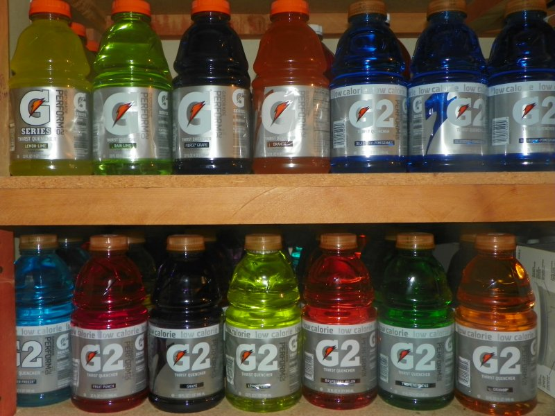 My love for Gatorade goes beyond.